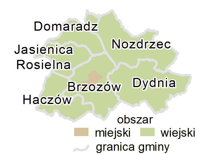 Subcarpathian Voivodeship - brzozowski county gminas